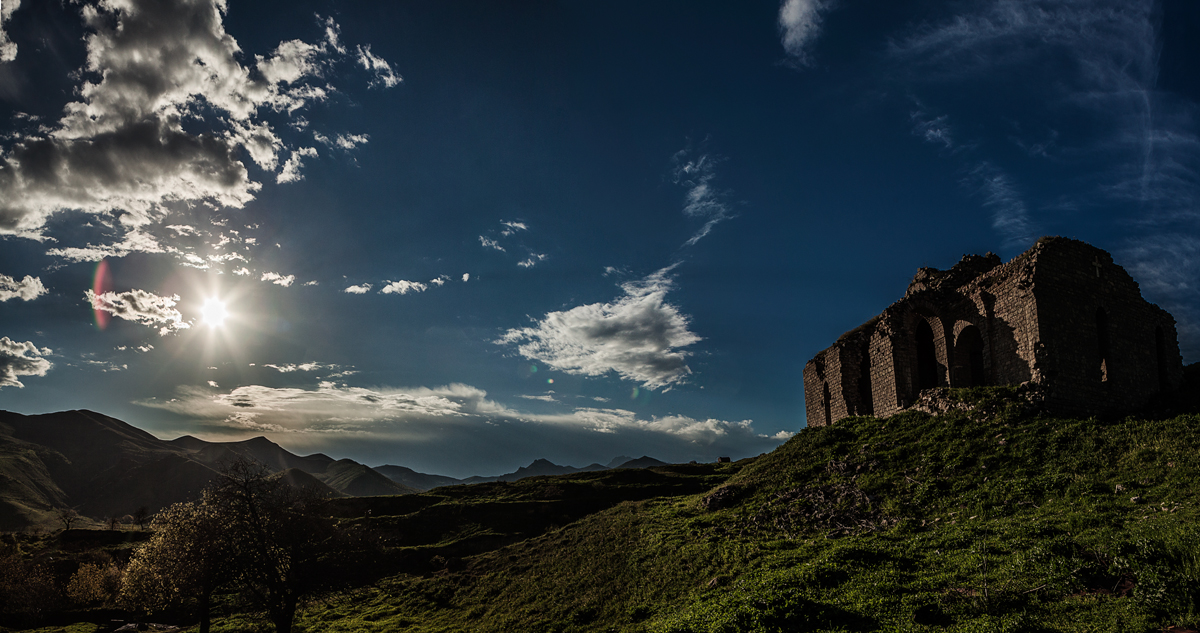 Church at Arakel St. Mariam Astvatsatsin